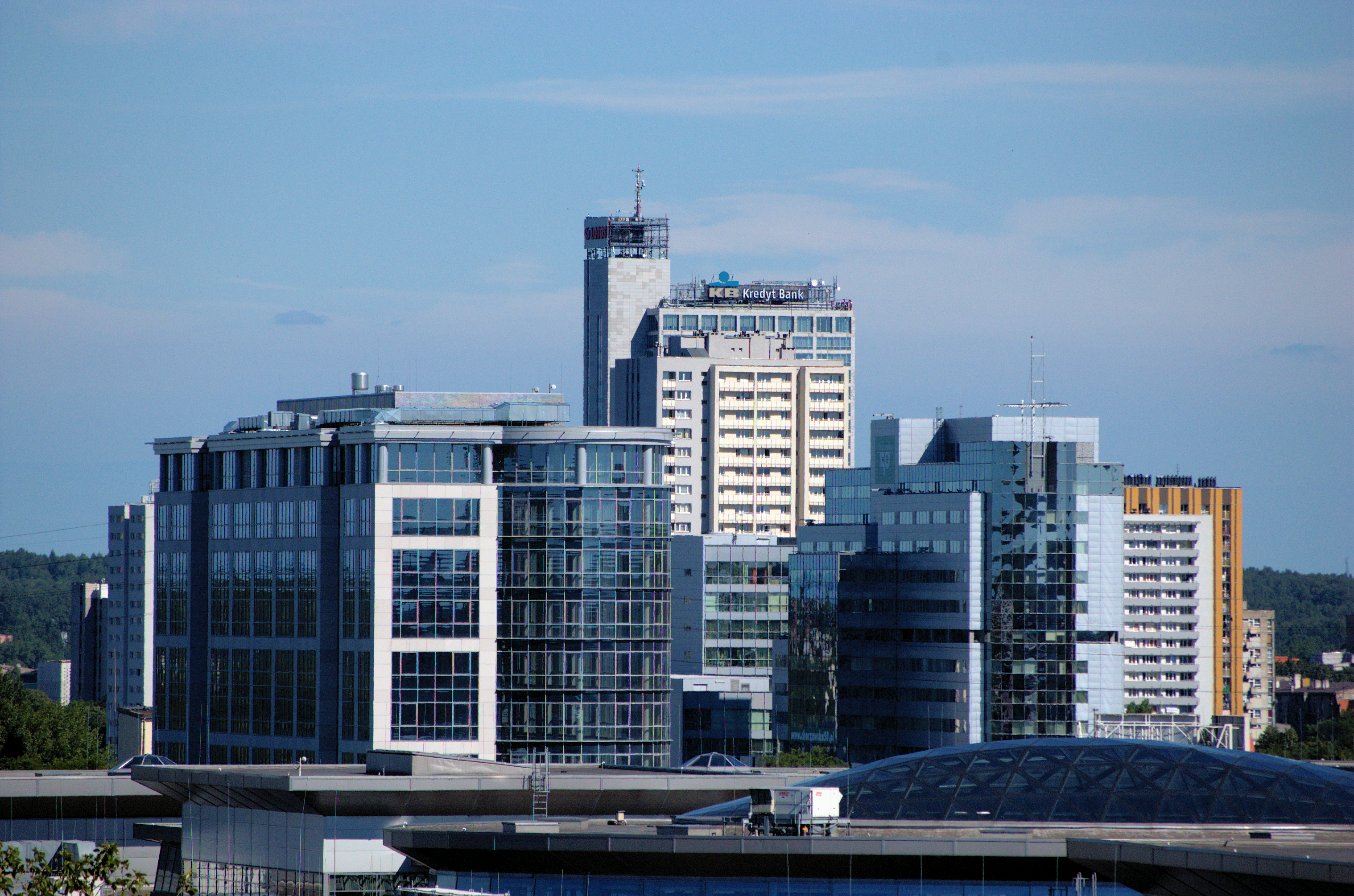 Katowice Skyscrapers from the middle city part.